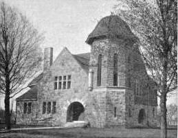 Starkweather Hall, Eastern Michigan University, c1899